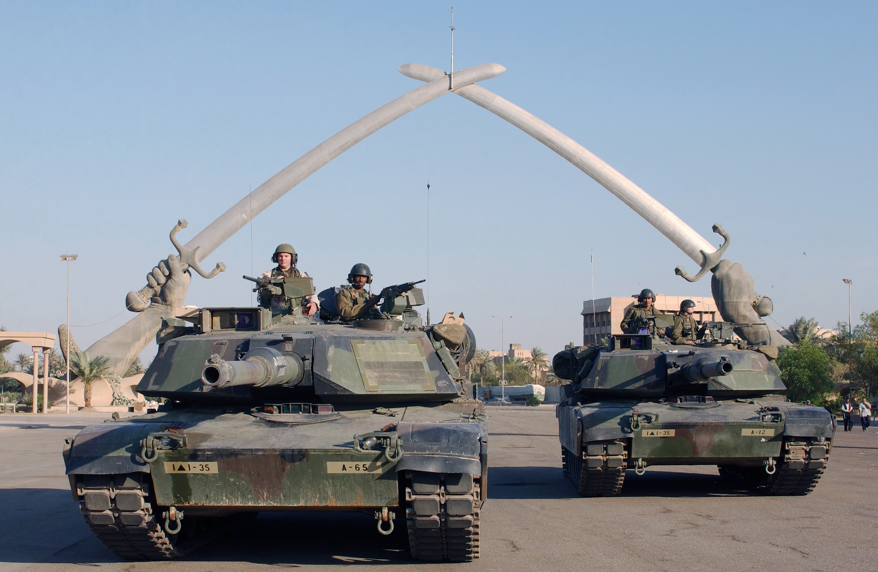 BAGHDAD, IRAQ (November 2003) - U.S. Army (USA) M1A1 Abrams MBT (Main Battle Tank), and personnel from A Company (CO), Task Force 1st Battalion, 35th Armor Regiment (1-35 Armor), 2nd Brigade Combat Team (BCT), 1st Armored Division (AD), pose for a photo under the "Hands of Victory" in Ceremony Square, Baghdad, Iraq during Operation Iraqi Freedom. The Hands of Victory monument built at the end of the Iran-Iraq war marks the entrance to a large parade ground in central Baghdad. The hand and arm are modeled after former dictator Saddam Husseins own and surrounded with thousands of Iranian helmets taken from the battlefield. The swords made from the guns of dead Iraqi soldiers, melted and recast into the 24-ton blades.